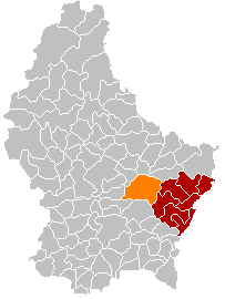 Own edit of Kanton GrevenmacherLocatie.png